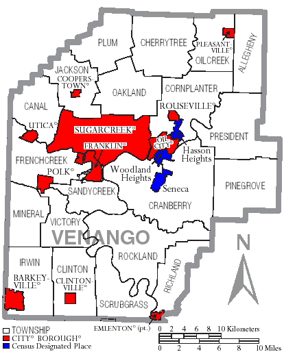 Map of Venango County, Pennsylvania, United States with township and municipal boundaries